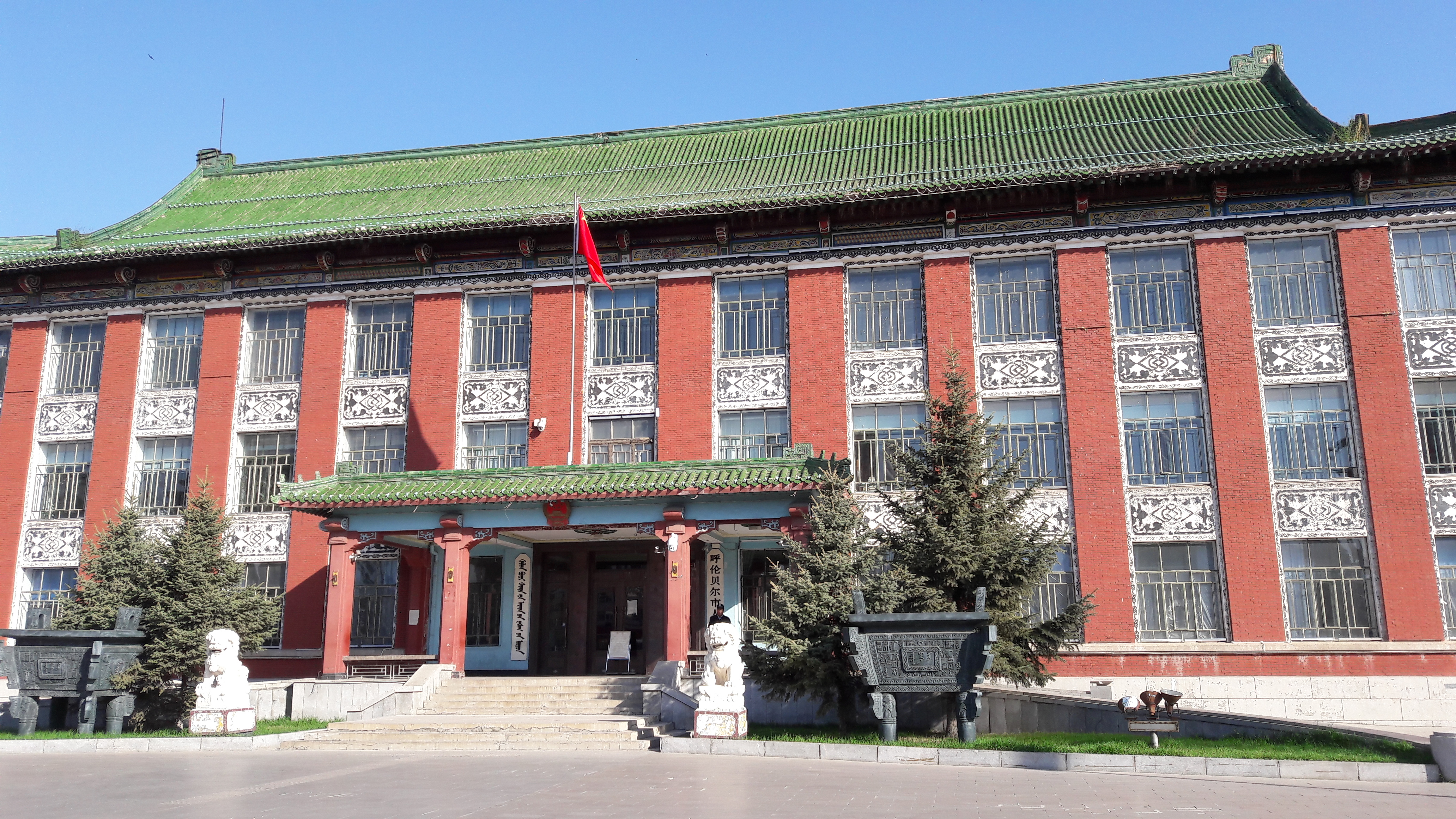 Townhall of the district of Hailar, Hulubuir, il Inner Mongolia, People Republic of China.